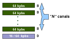 Is an image about what channels are involve in the kind of access ISDN-PRI. I have made this image by myself.